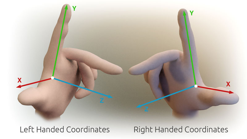 3D Cartesian Coodinate Handedness